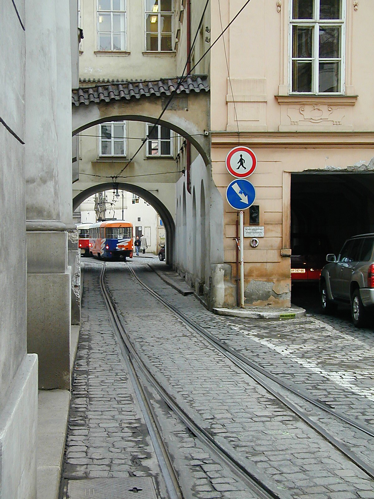 Gauntlet tram track in Letenská Street, Malá Strana, Prague